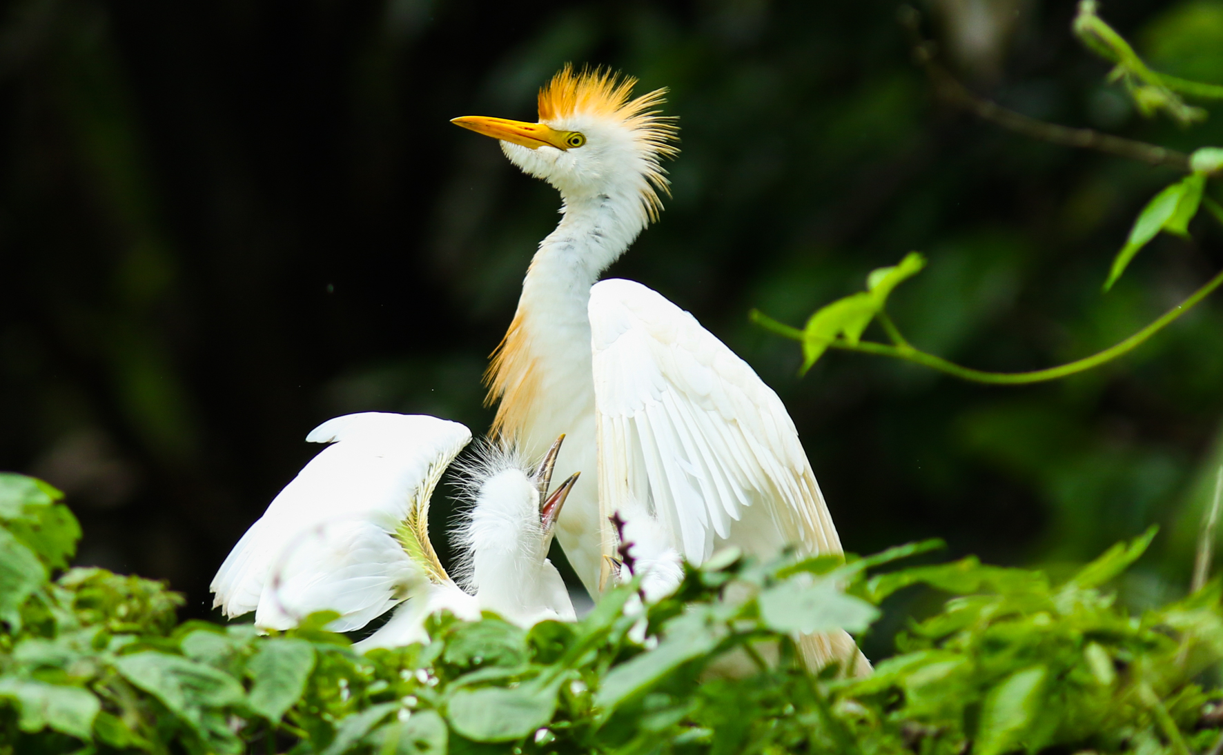 Bubulcus ibis (Linnaeus, 1758) at Berçário das Garças, Lagoa do Mucuripe, Campo Maior, Piauí, Brazil. Many birds, especially egrets from a number of species breed in this conservation area. Local name is Garça-vaqueira, also known as garça-carrapateira.